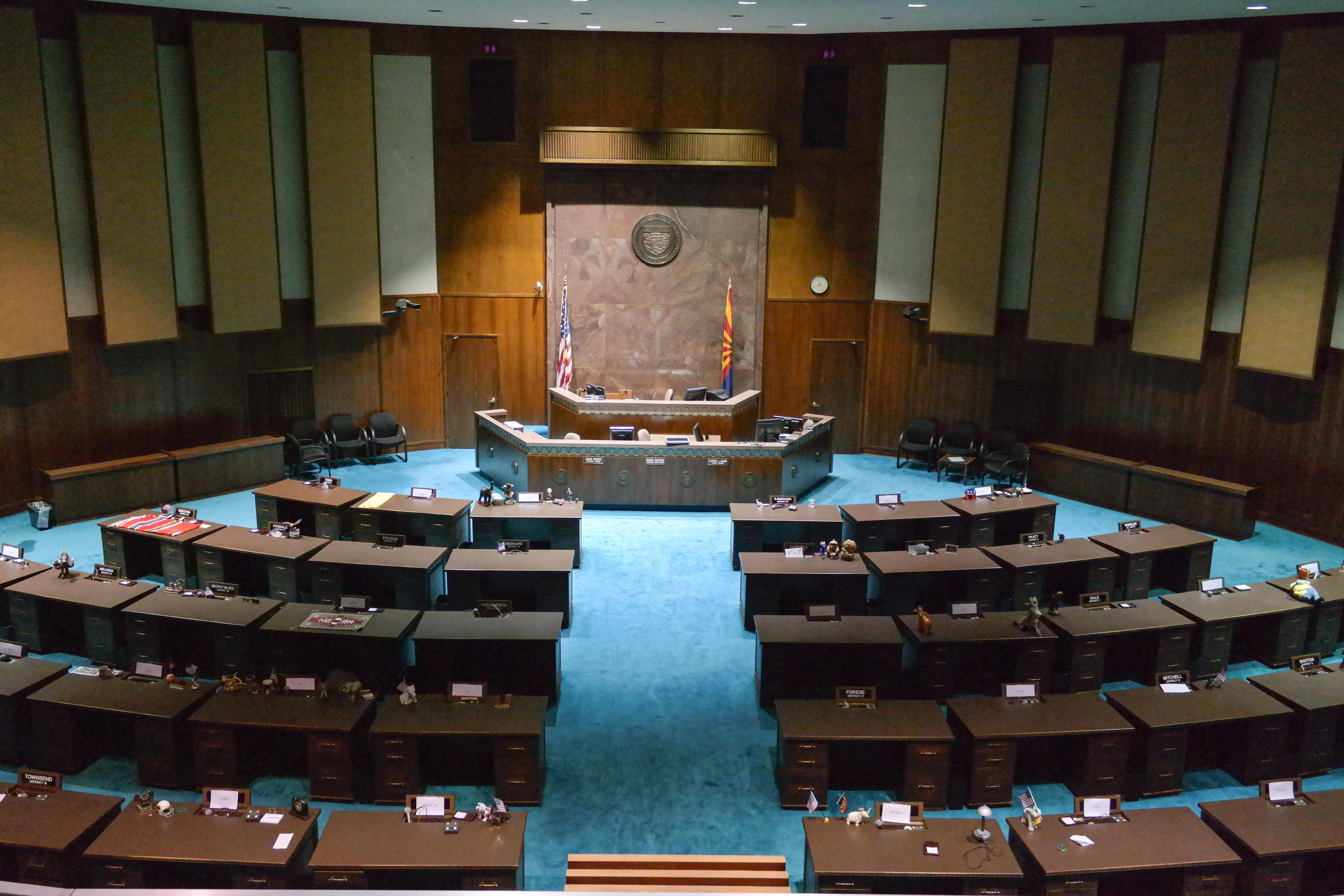 A view of the Arizona State House Chamber in Phoenix